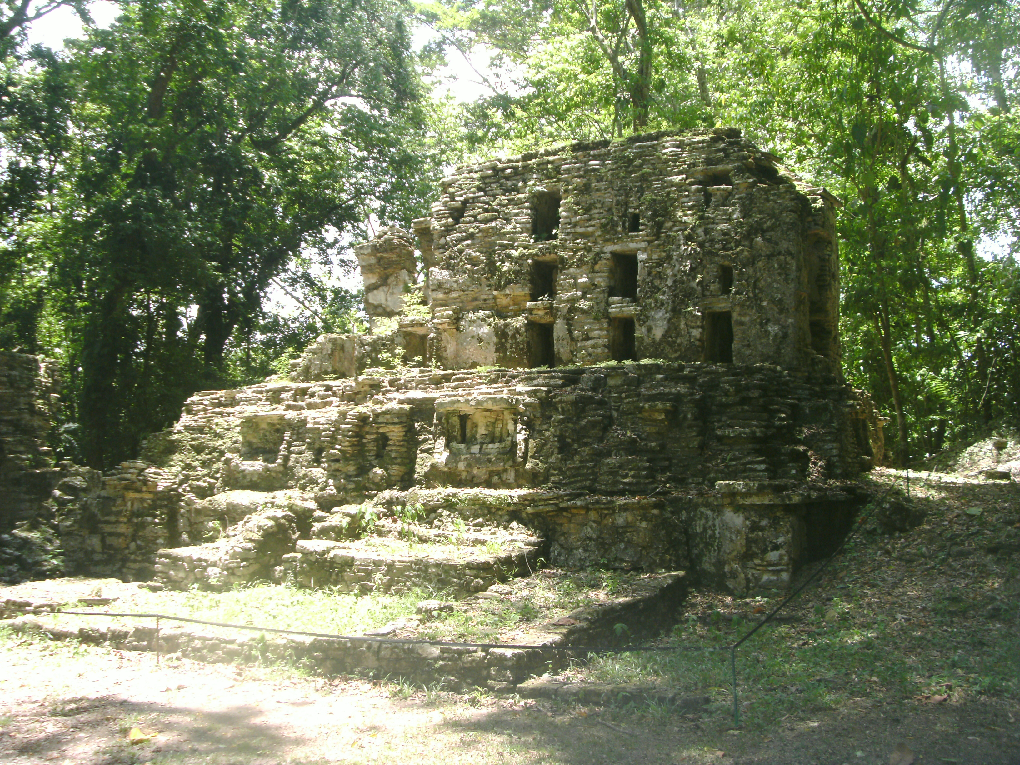 Edificio6, Yaxchilan, Chiapas, Mexico